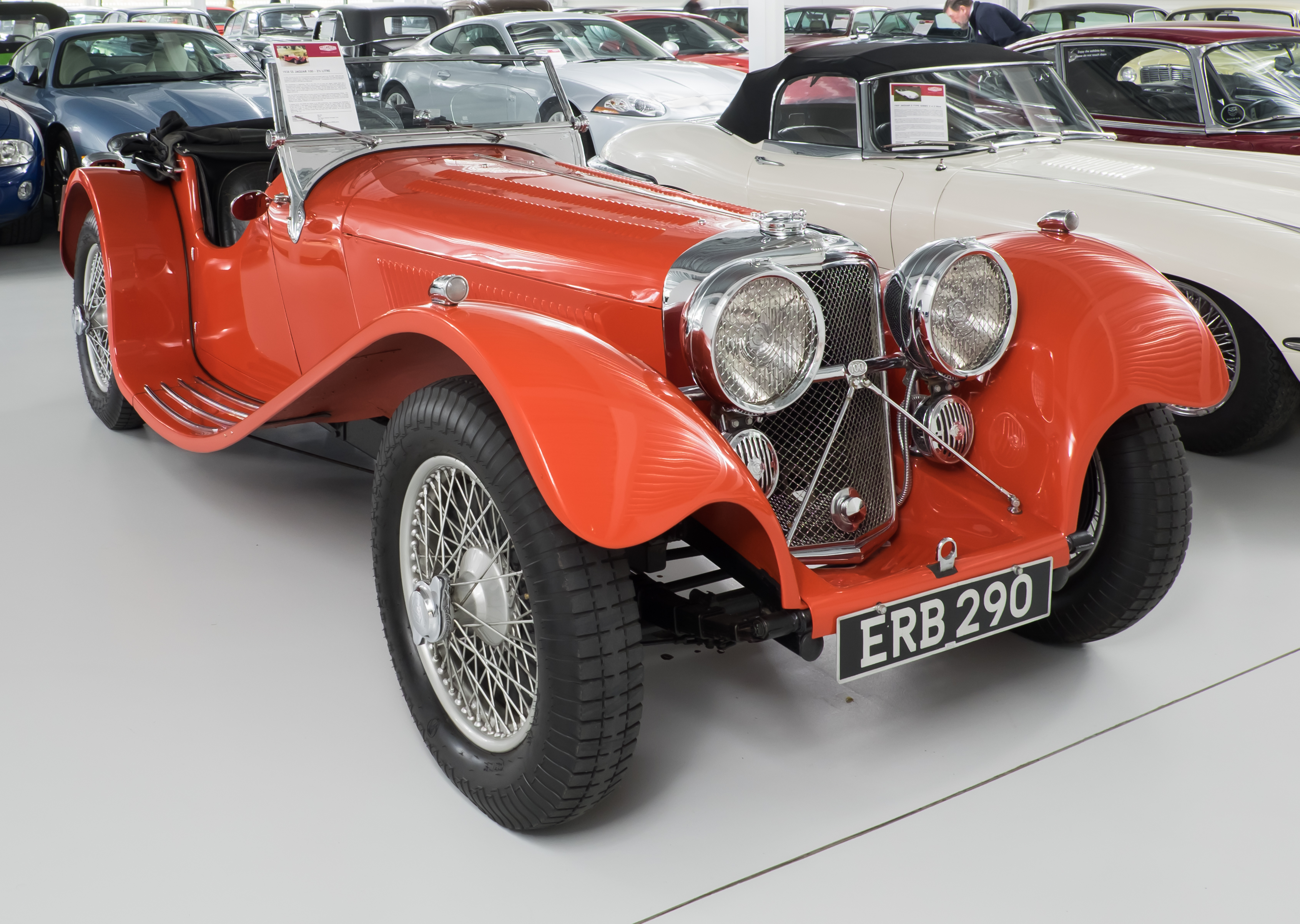 A 1938 SS Jaguar 100 - 2 1⁄2 Litre, part of the Jaguar Heritage Collection kept at the British Motor Museum.